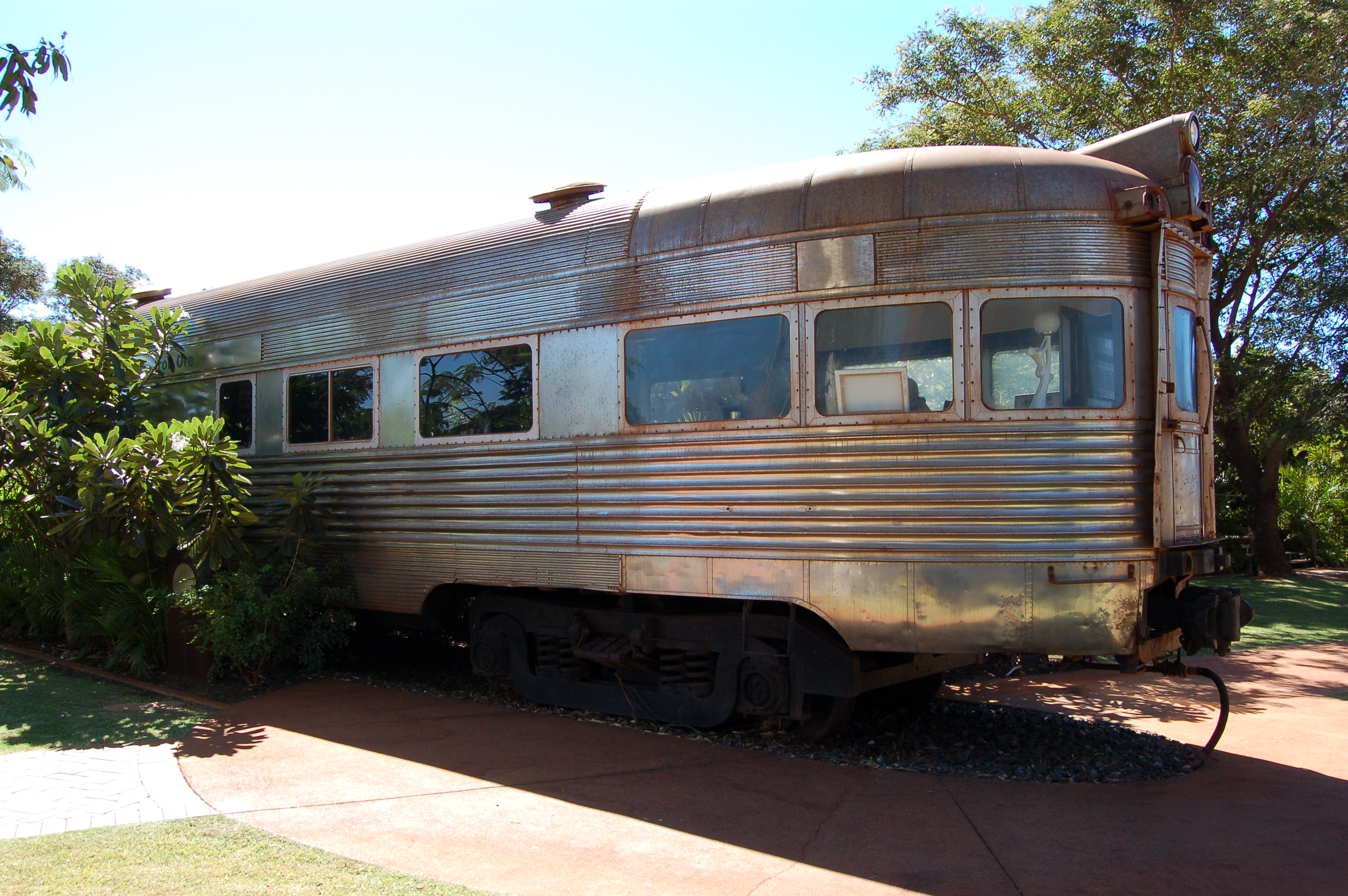 An exterior view of the Silver Star Cafe, Port Hedland, Western Australia.